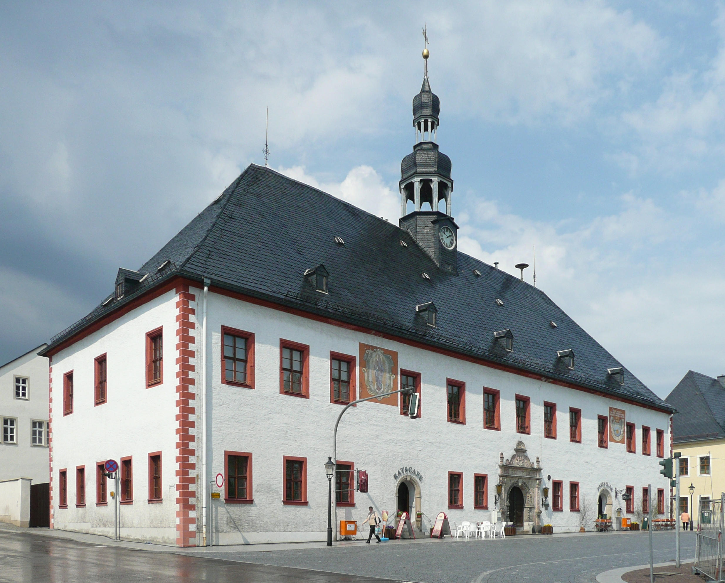 the townhall in Marienberg.